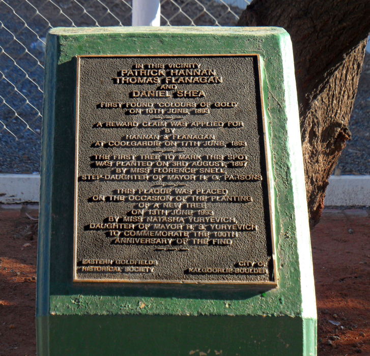 Commemorative notice in honour of Thomas Flanagan and his prospecting partners. Installed in 1993, one hundred years since the gold was found.